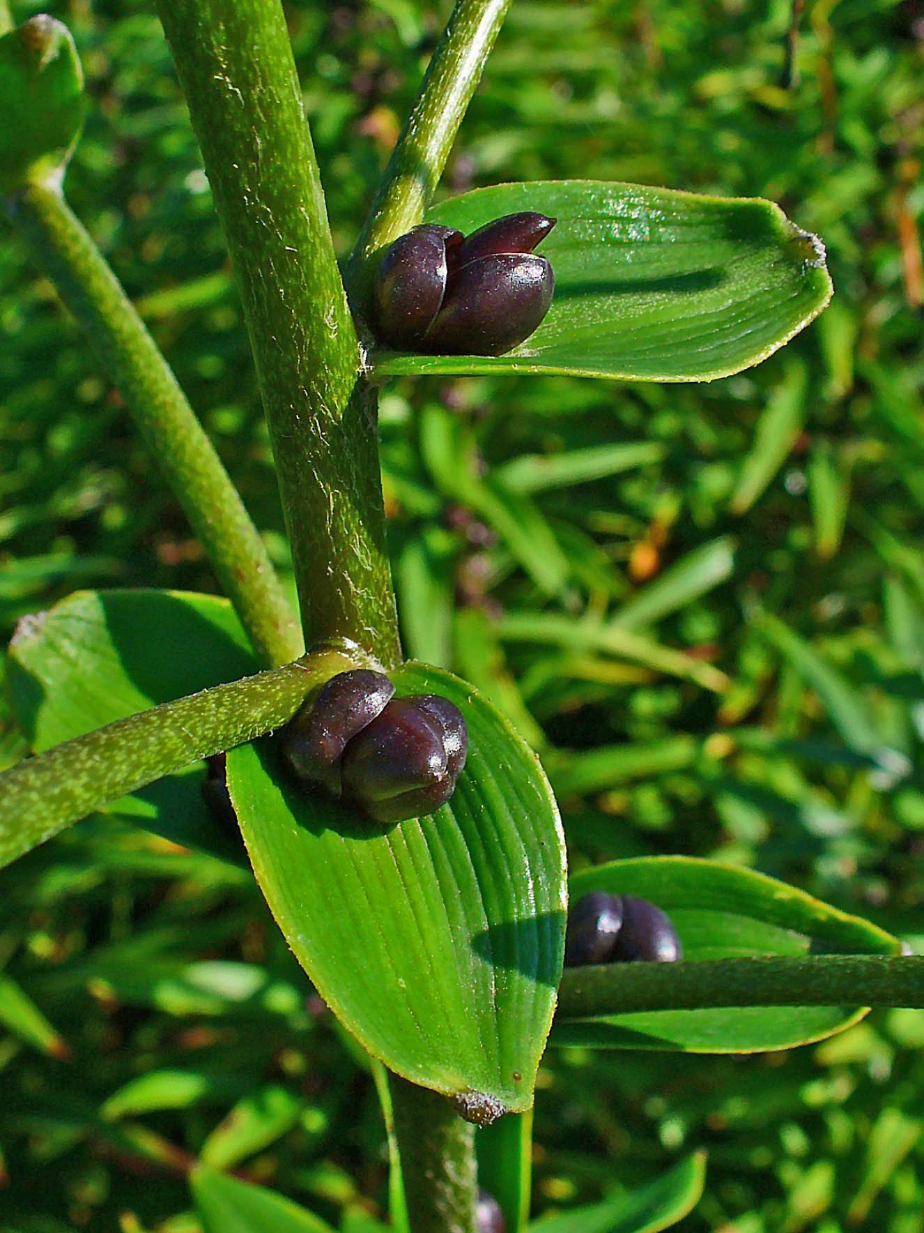 Lilium lancifolium, Liliaceae, Tiger lily, bulbils. The fresh, blooming plant without bulb is used in homeopathy as remedy: Lilium tigrinum (Lil-t.)